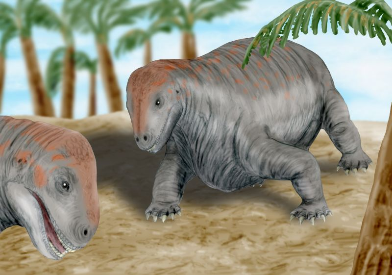 Ulemosaurus svijagensis from the Late Permian of Russia. Digital painting.